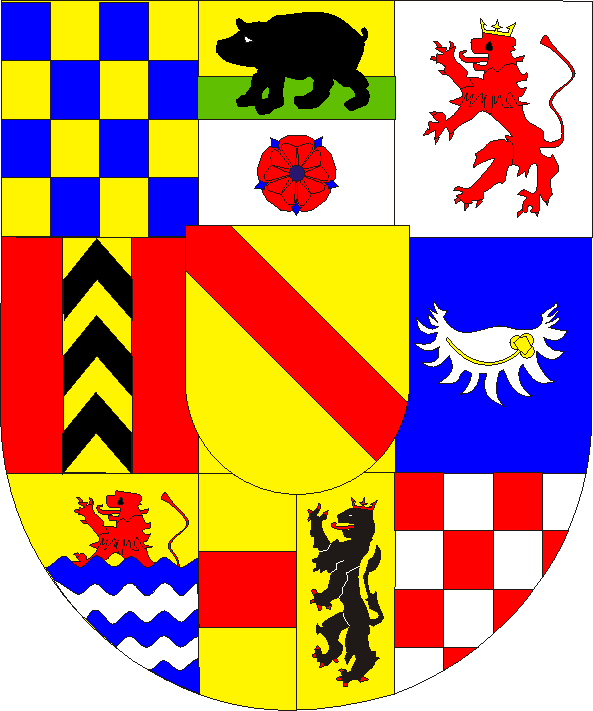 coats of arms of the markgraviat of Baden-Baden 1: county of Vorder-Sponheim; 2: county of Eberstein; 3: Markgraviat of Hachberg; 4: lordship of Badenweiler; heart: Baden; 6: Landgraviat of Sausenberg; 7: lordship of Rötteln; 8a: lordship of Lahr; 8b: lordship of Mahlberg; 9: county of Hinter-Sponheim